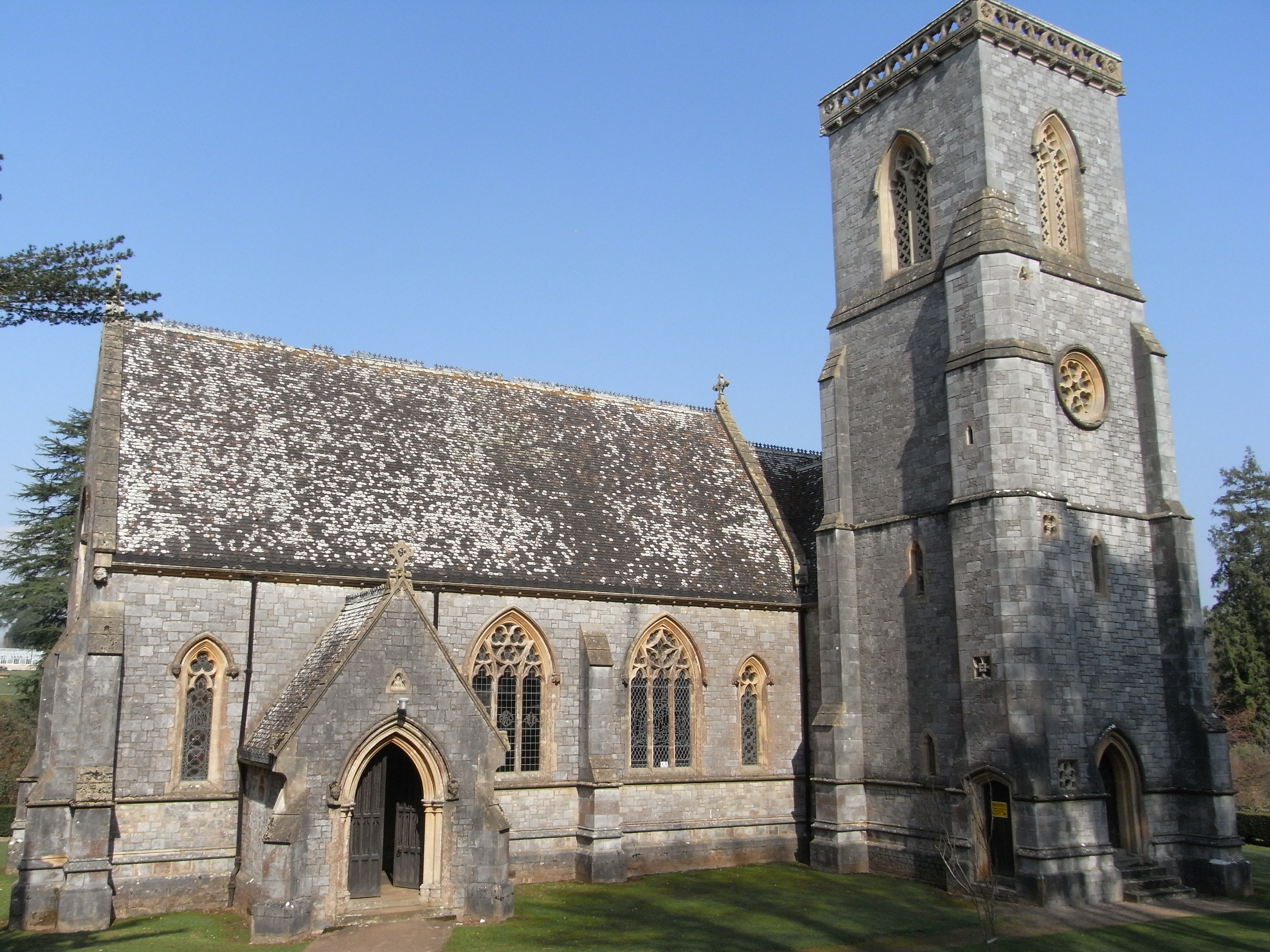 St Mary's parish church, Bicton, Devon, seen from south